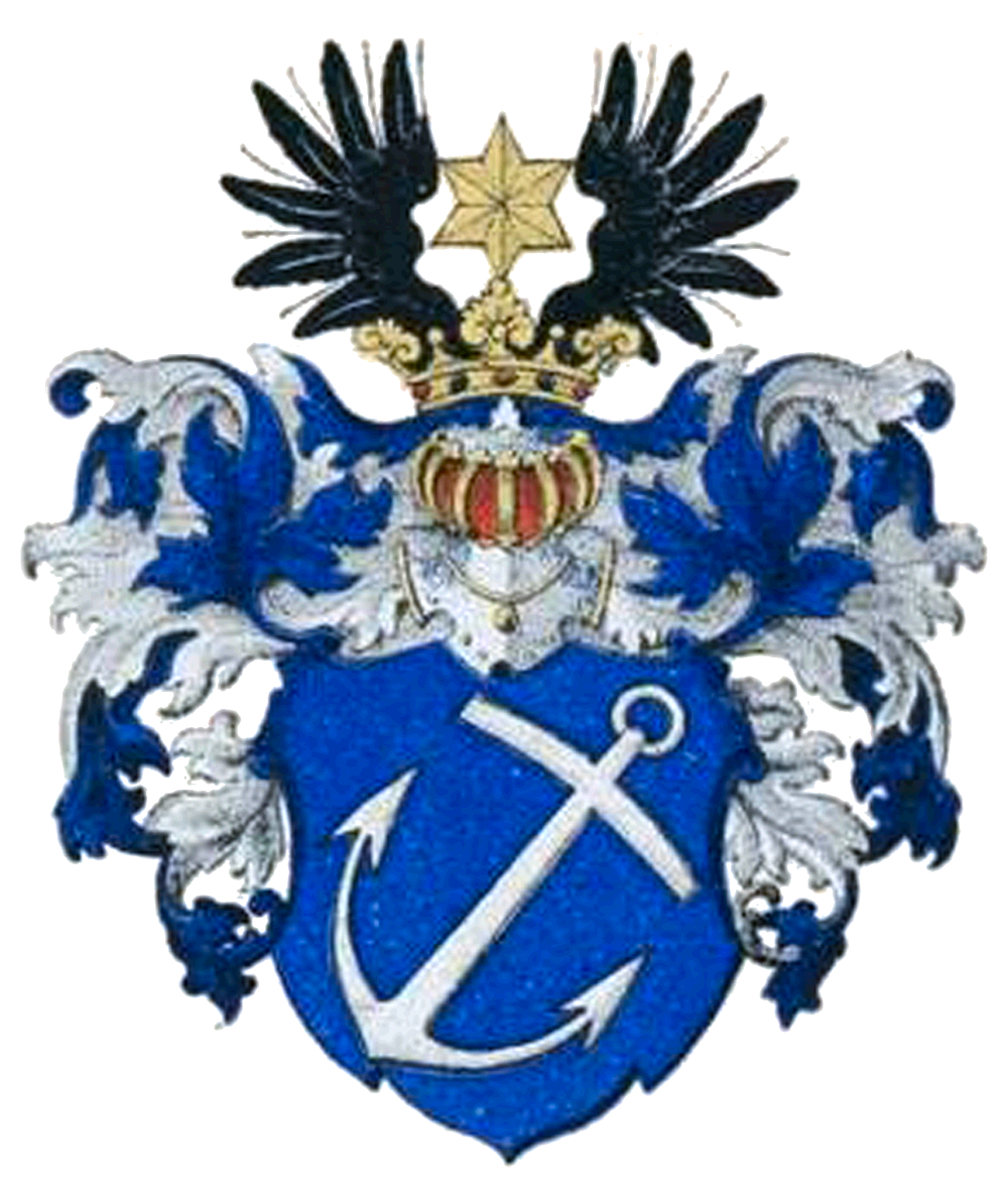 Coat of arms of Gernet